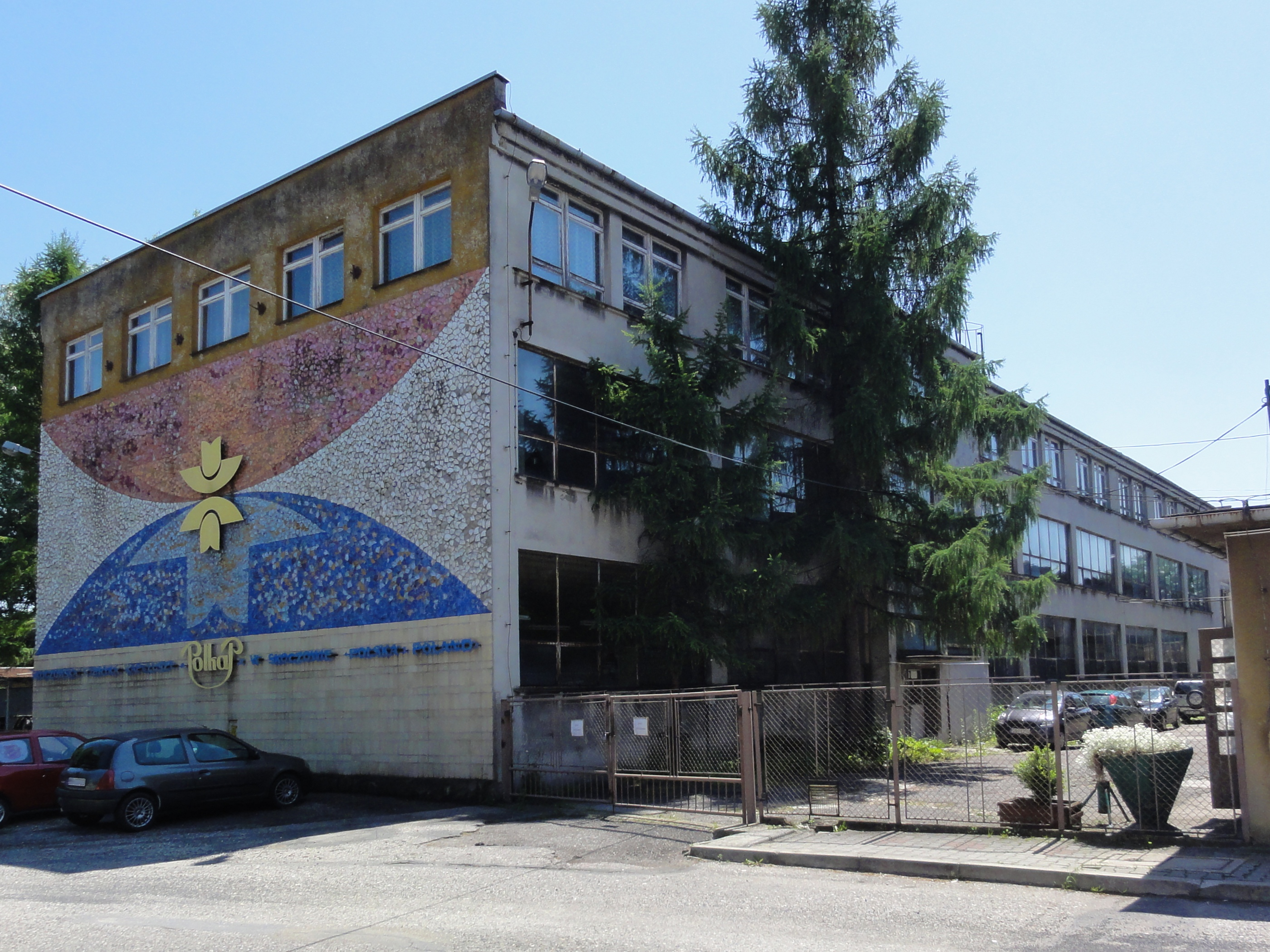 Hats factory in Skoczów